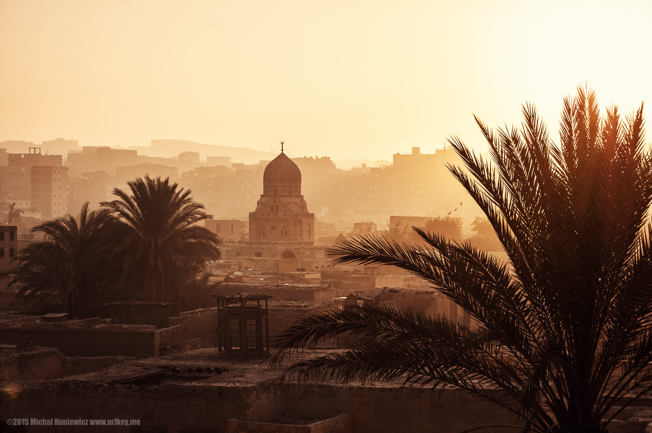 Dawn at the City of the Dead in Cairo, Egypt.